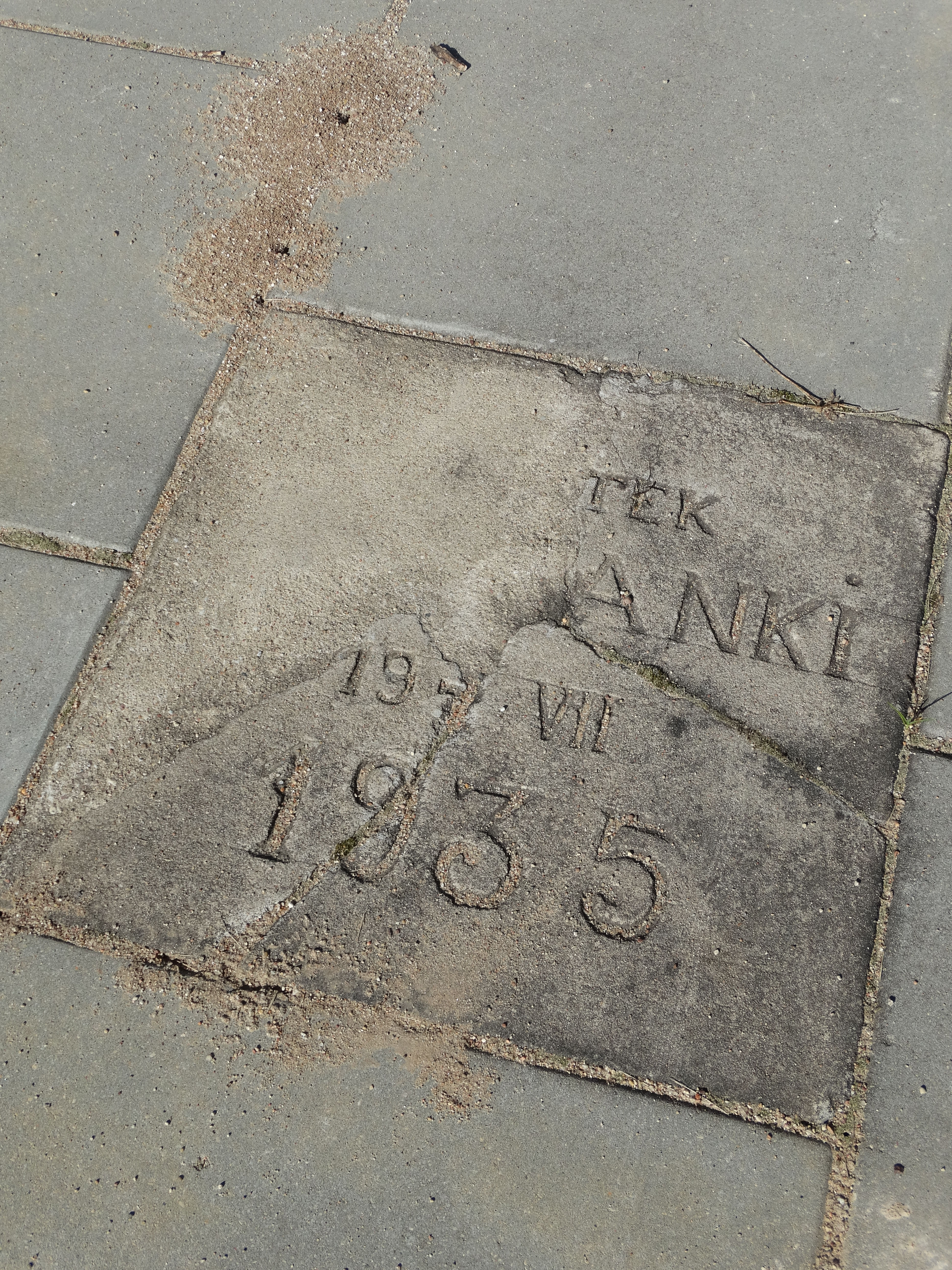 Chapel in Punžionys, Švenčionys District, Lithuania